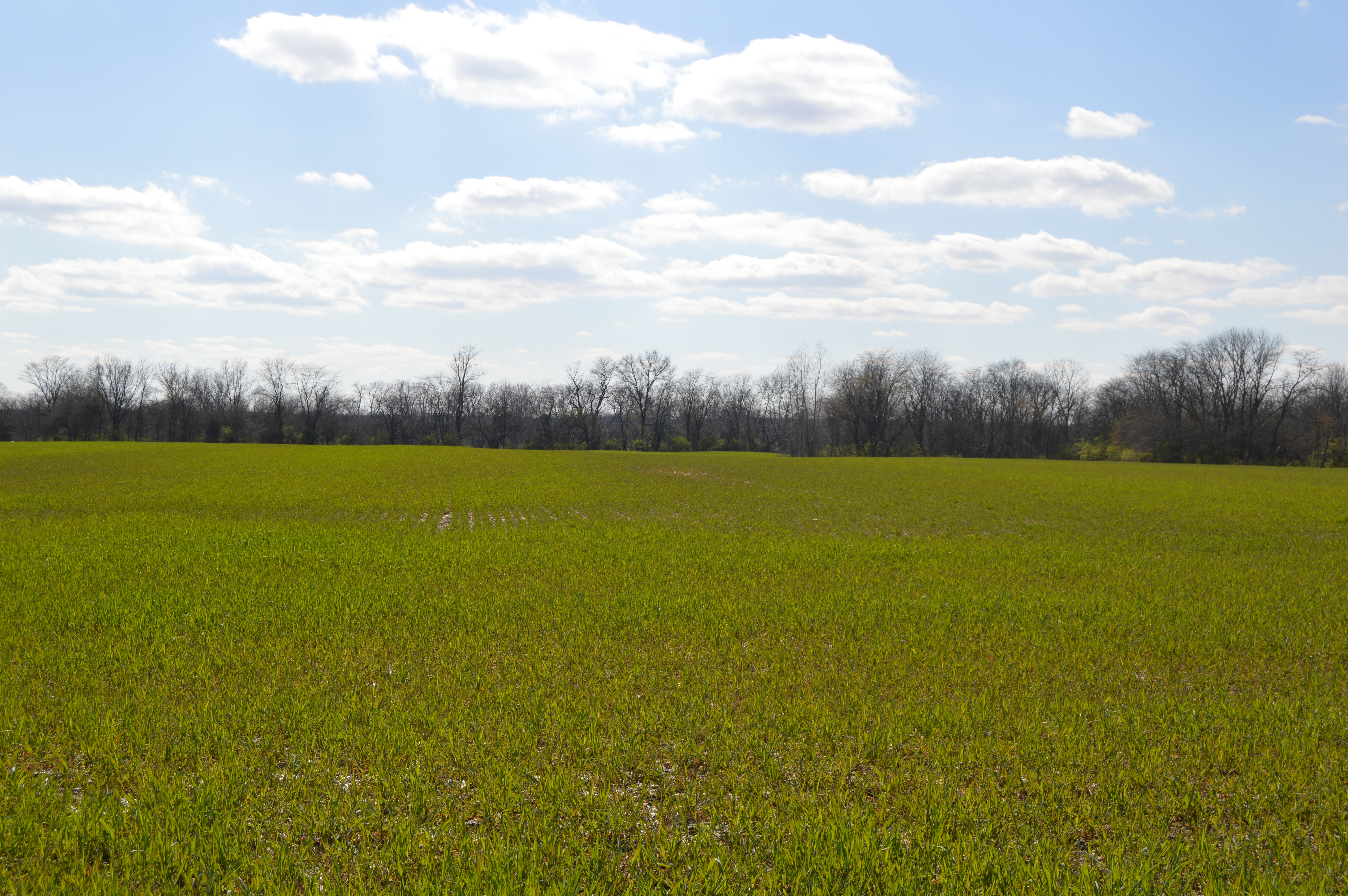 Wheat fields on the eastern side of Hume Lever Road in extreme eastern Oak Run Township, Madison County, Ohio, United States.